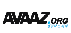 Logo Avaaz